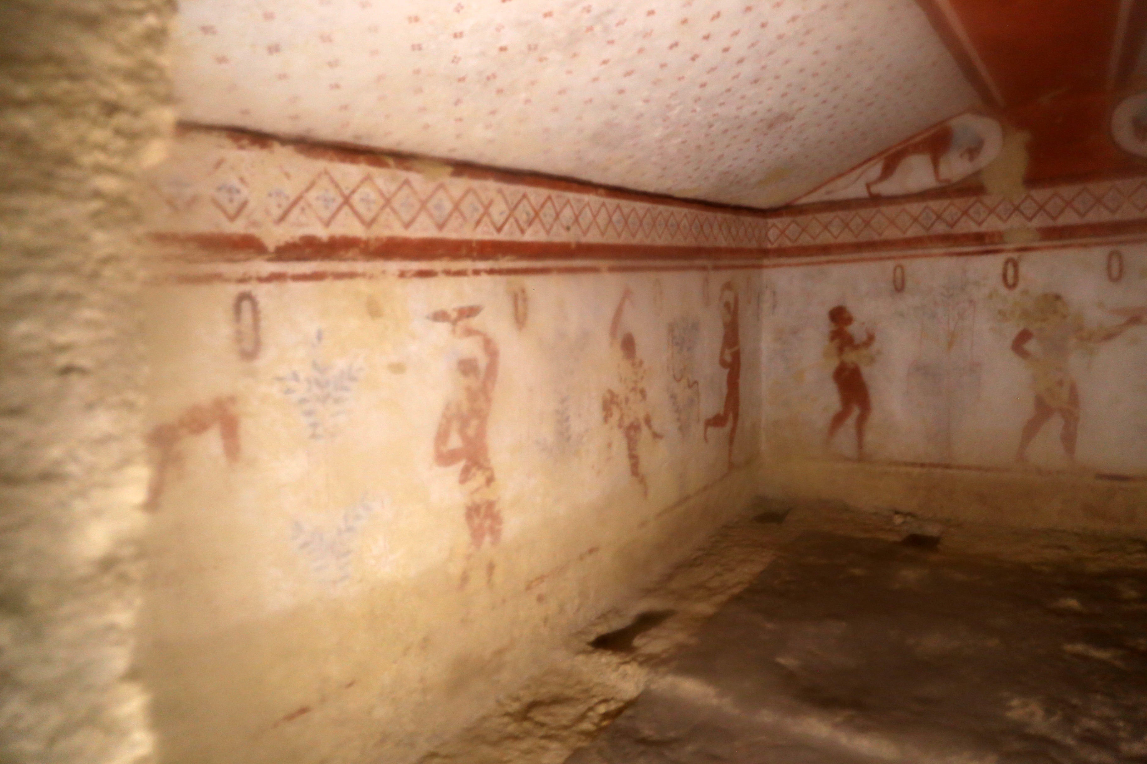 Necropoli dei Monterozzi (Tarquinia)